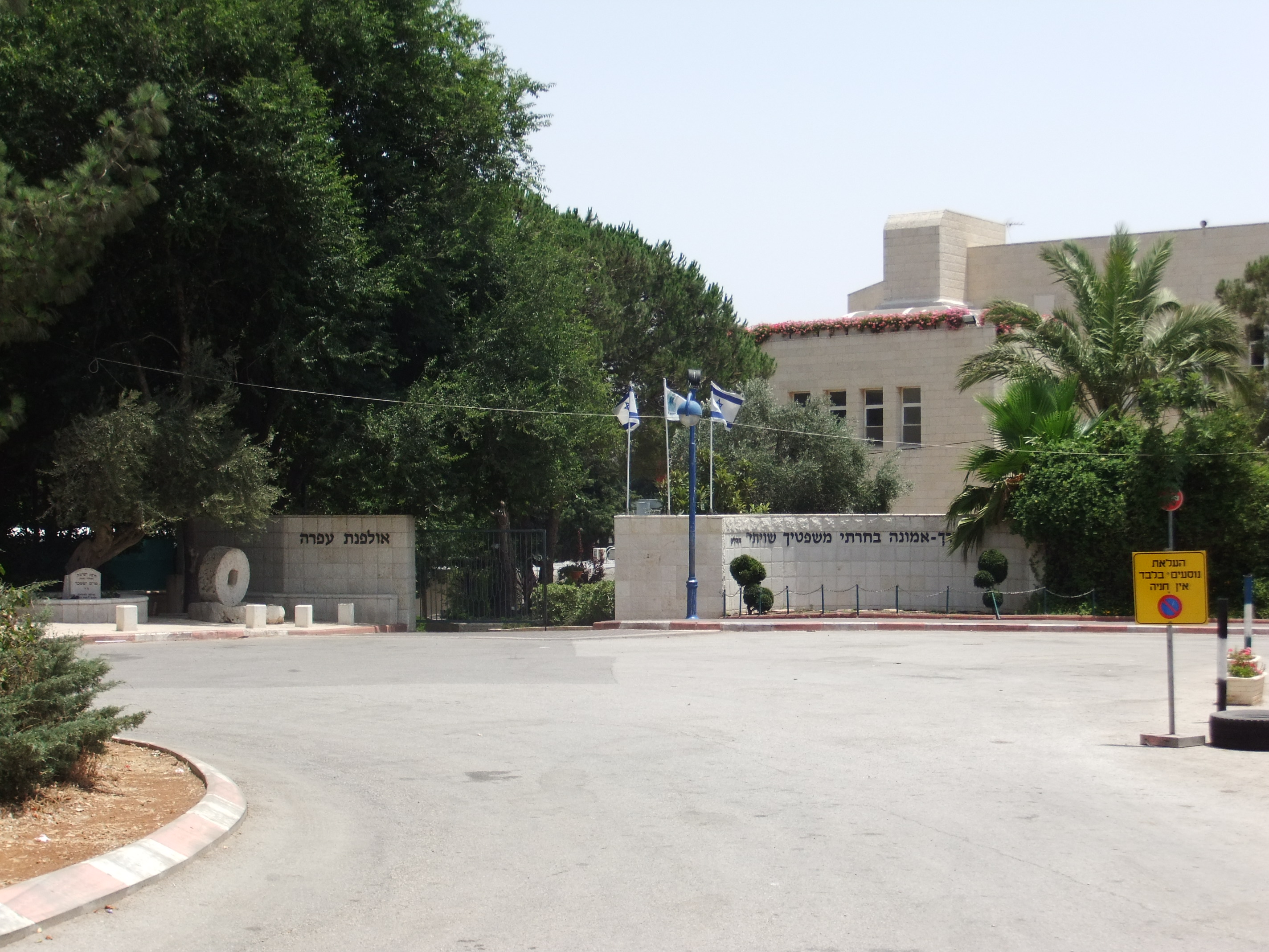 Entrance to the Ulpana of Ofra